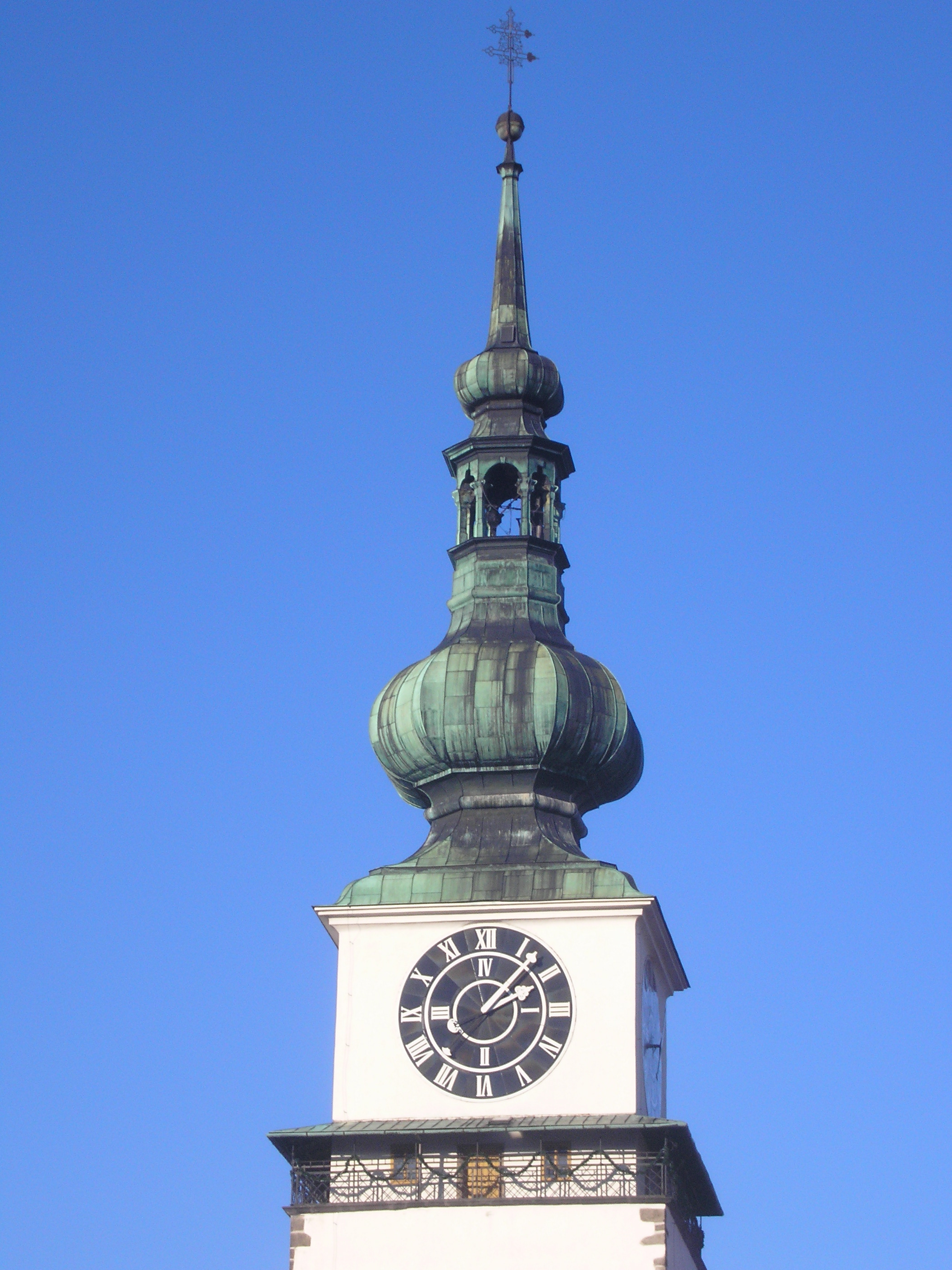 Peak of the Třebíč tower with a gallery, the largest clock-face in Europe and a large onion Dome.